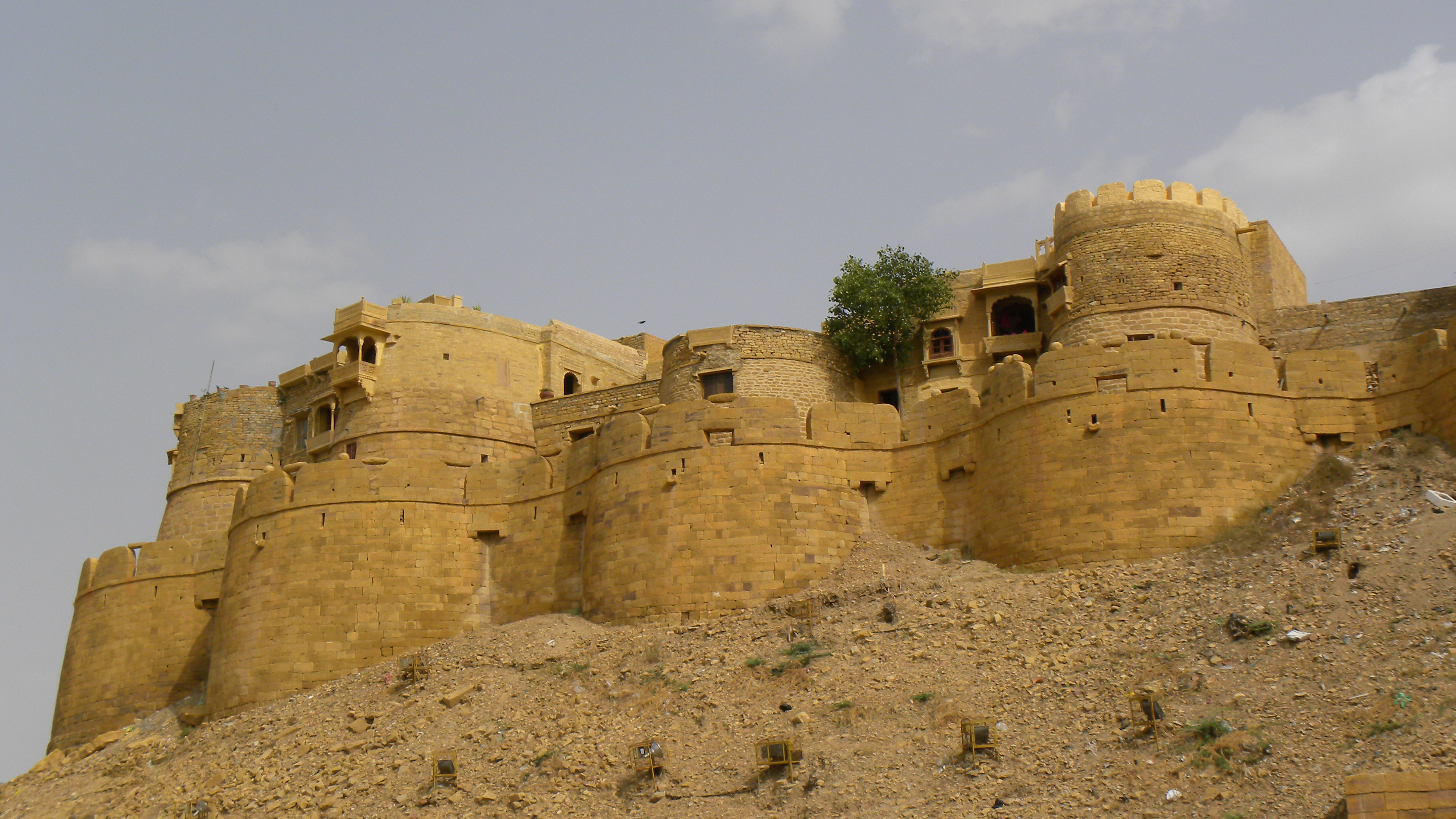 A section of the Jaisalmer fort as viewed from the outside